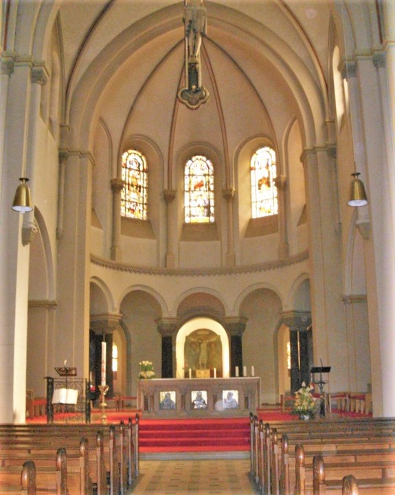 Interior of the roman catholic Missionshaus church in St. Wendel, Saarland